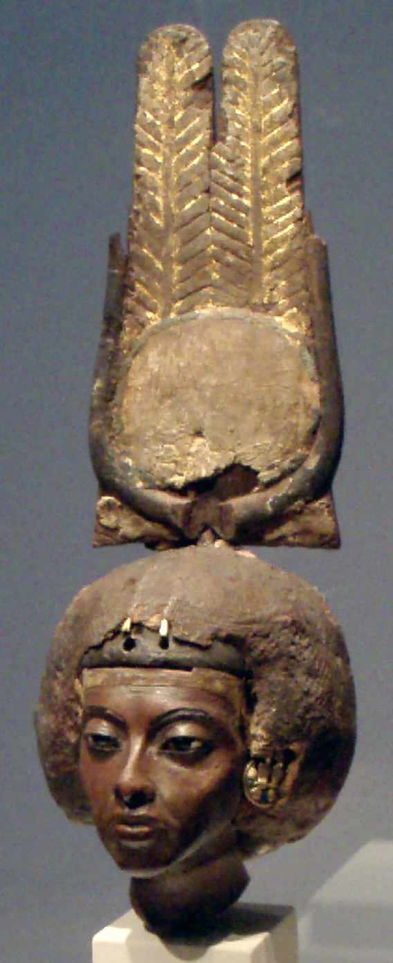 Photo of a fragmentary statue of Queen Tiy. New Kingdom, circa 1355 B.C. Image taken at the Altes Museum, Berlin.